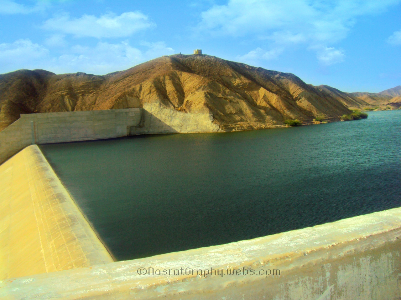 Mirani Dam (Urdu: میرانی) is a medium-size multi-purpose concrete-faced rock-filled dam located on the Dasht River south of the Central Makran Range in Kech District in Balochistan province of Pakistan. Its 302,000 acre feet (373,000,000 m3). reservoir is fed by the Kech River and the Nihing River.[2] Mirani Dam was completed in July 2006 and it impounded the Dasht River in August 2006. It successfully withstood an extreme flood event in June 2007.[3] The dam is used for irrigation of 33,200 acres in Kech Valley and for the supply of clean drinking water to Turbat and Gwadar.